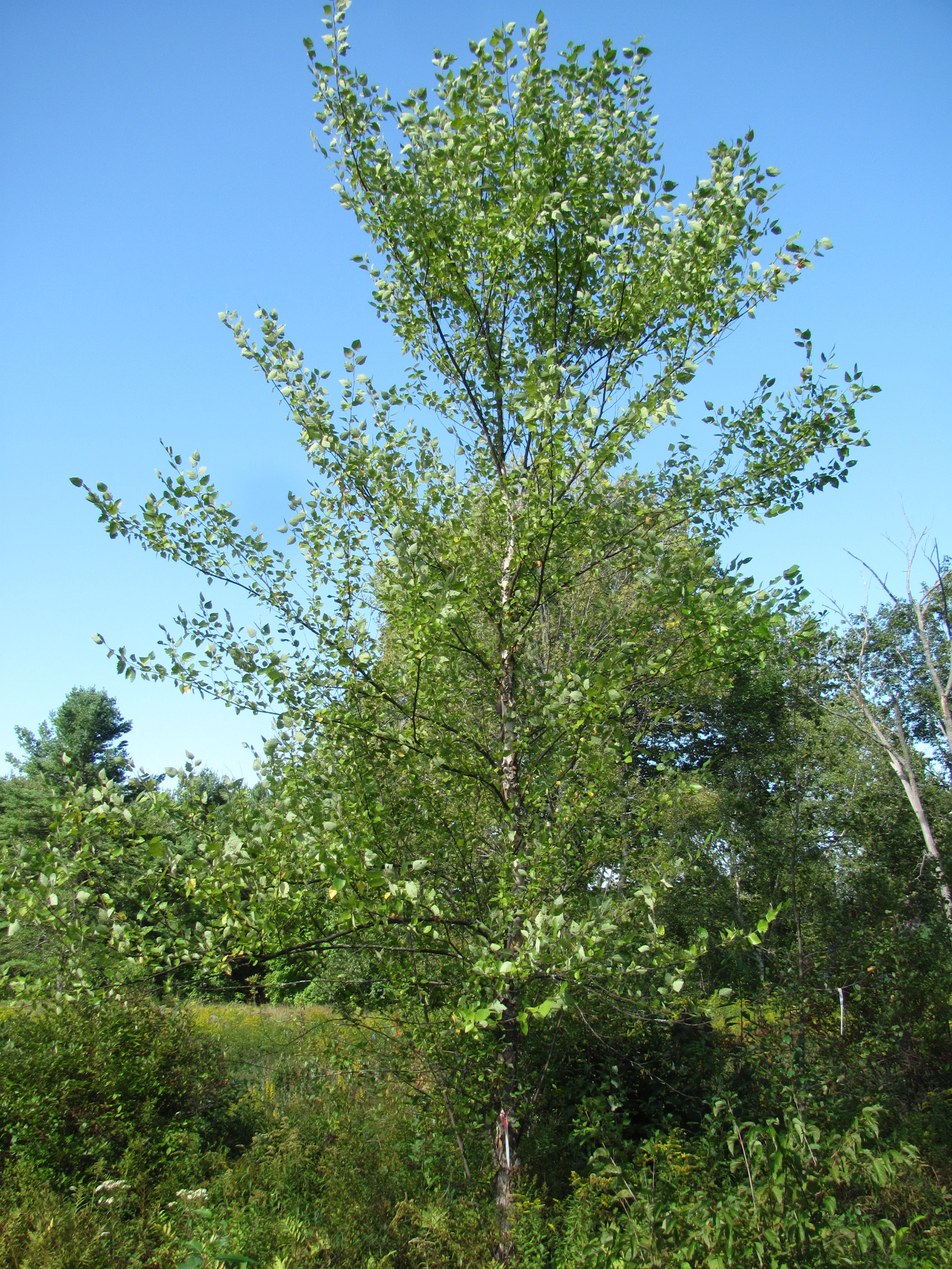 River Birch at Skyfields Arboretum, Athol Massachusetts